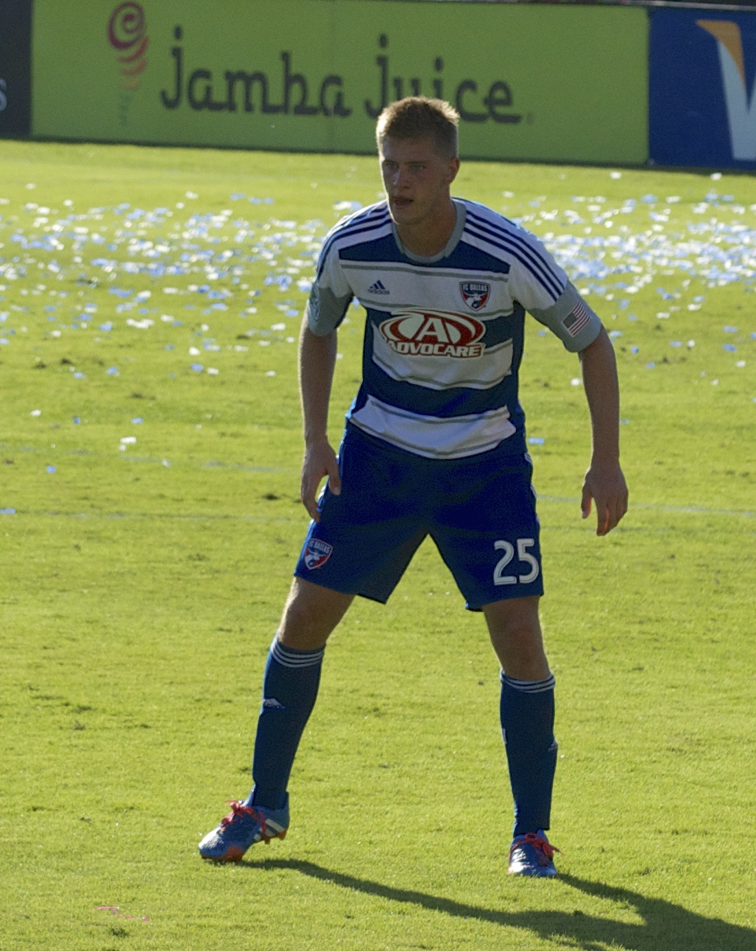 Walker Zimmerman, FC Dallas, Buck Shaw Stadium, 26 October 2013